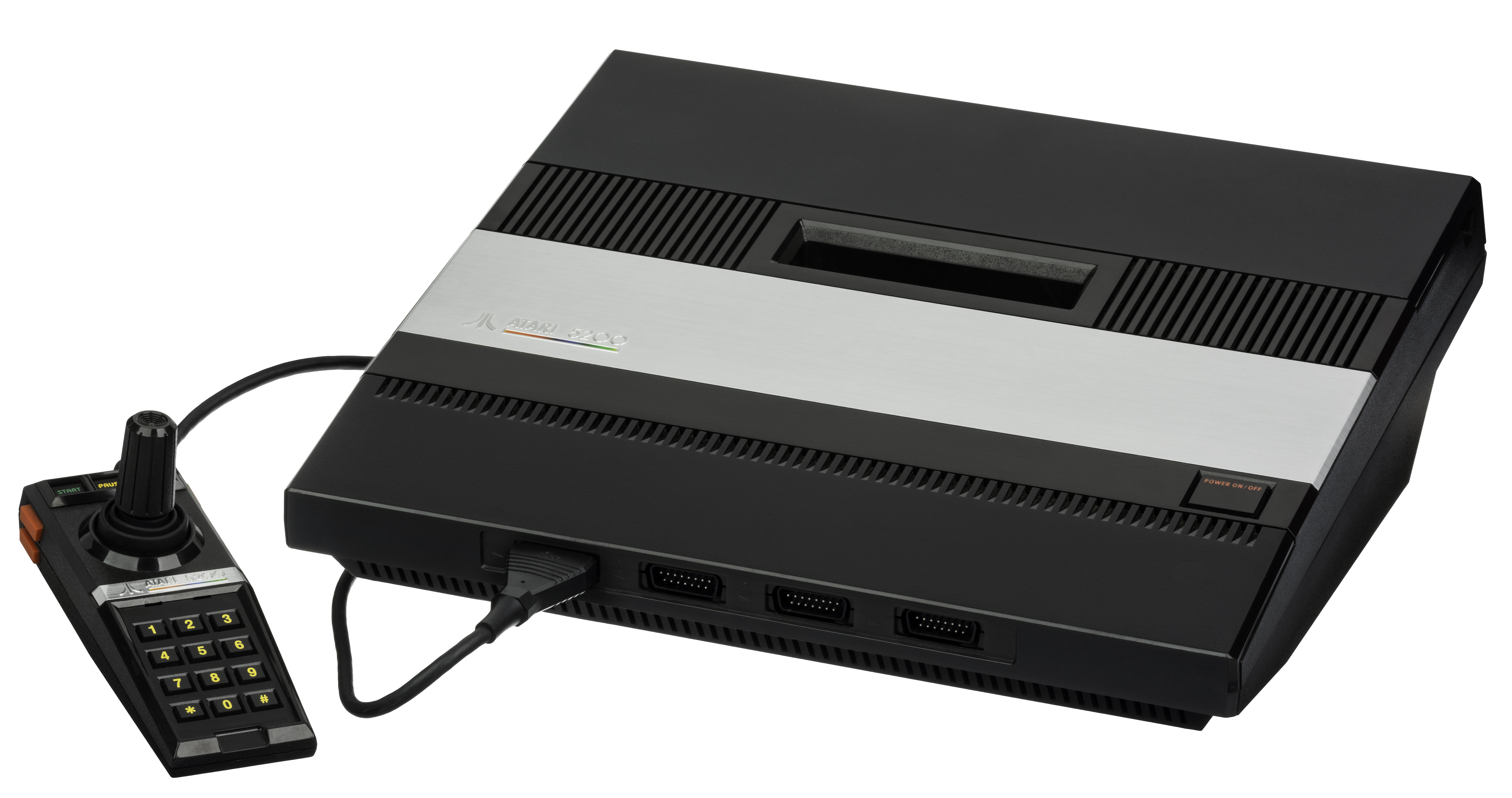 For an expanded gallery of photos of the Atari 5200, check out the Evan Amos Atari 5200 Wikimedia gallery. The Atari 5200 and controller, a gaming system released by Atari in 1982. The 5200 was Atari's follow-up to the very successful 2600. A larger and more powerful console, it was based on the Atari 8-bit 400/800 computer line. It did not fare well in the market, however, due to Atari's and the gaming market's collapse in 1983. Of note is that this system is an original 4-port version. The system would later be released with only two controller ports.